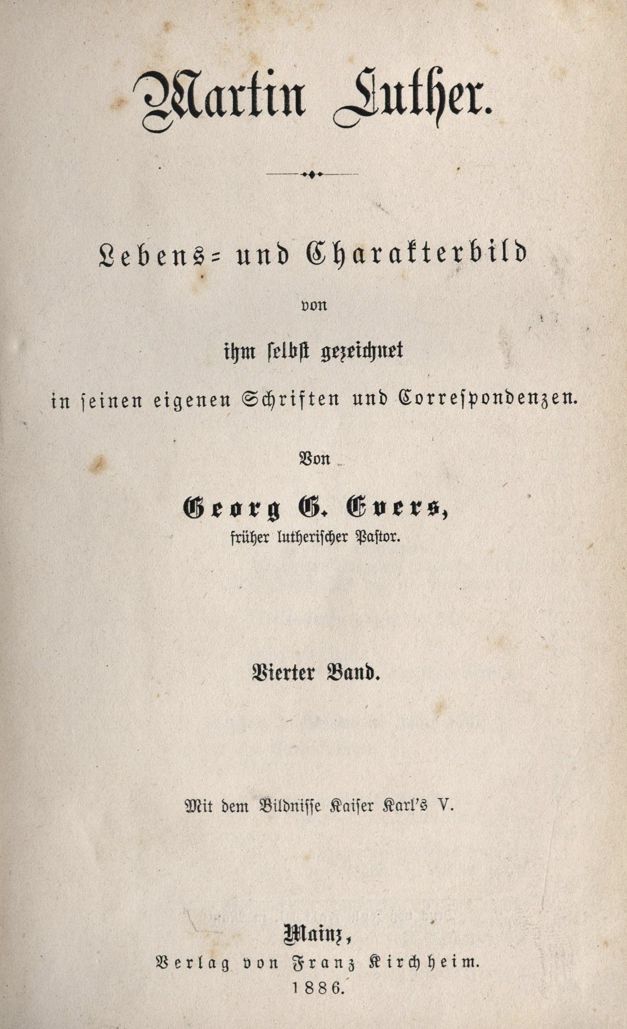 Titelblatt Lutherbiographie von Georg Gotthilf Evers (1837-1916), 1886